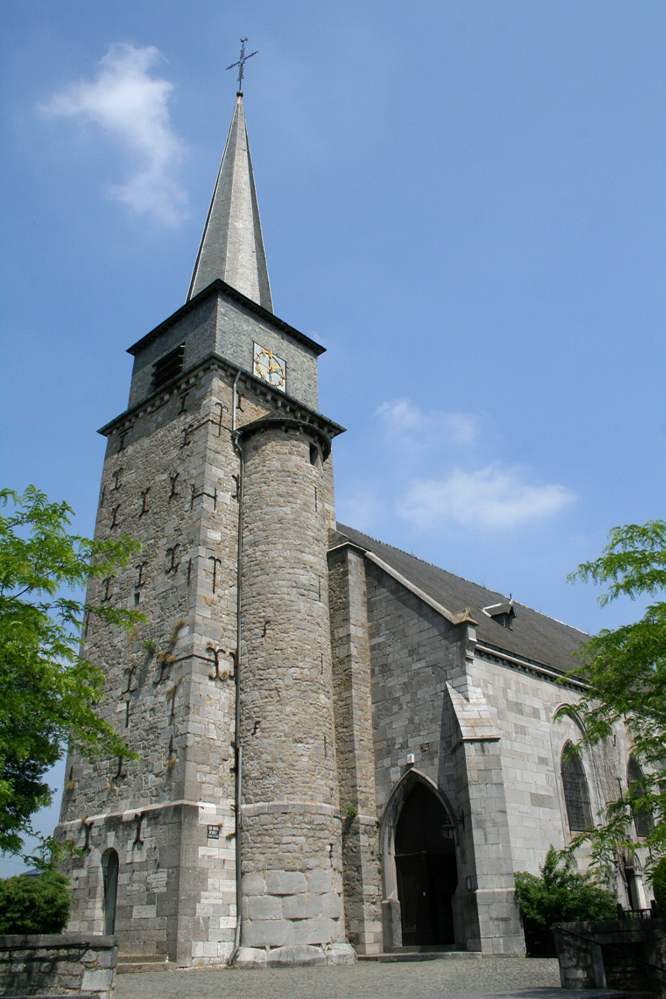 Gerpinnes (Belgium), the St. Michel and Rolende church (XVIth century).